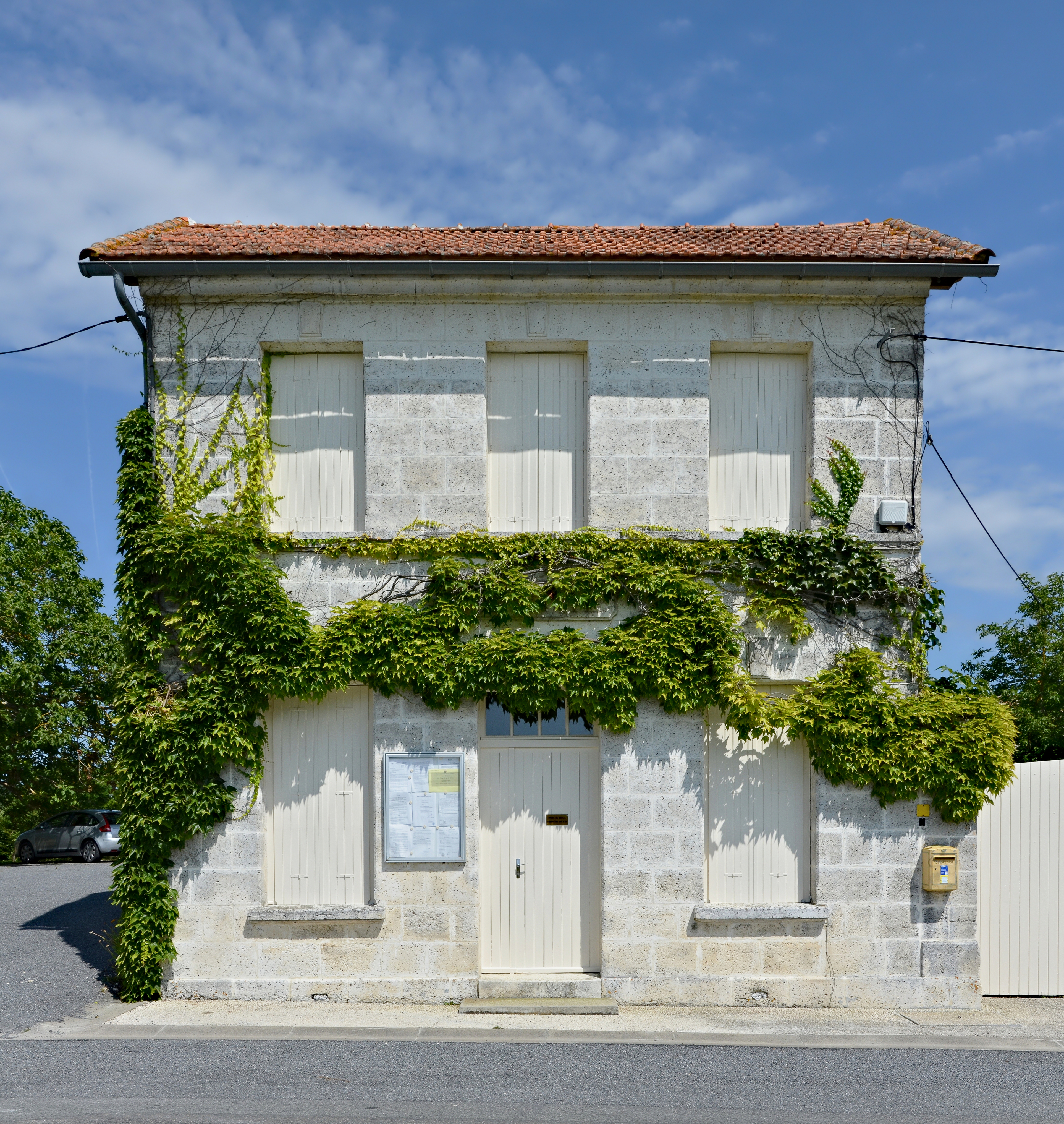 City hall (facade) of Bessac, Charente,France.